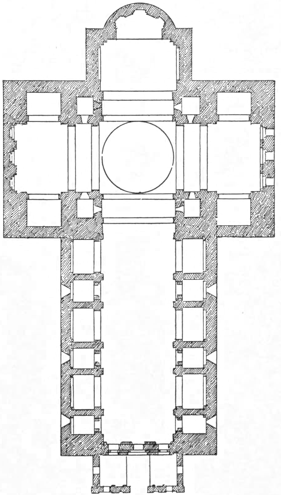 Floorplan of Sant' Andrea, Mantua, figure 18 from "Character of Renaissance Architecture"